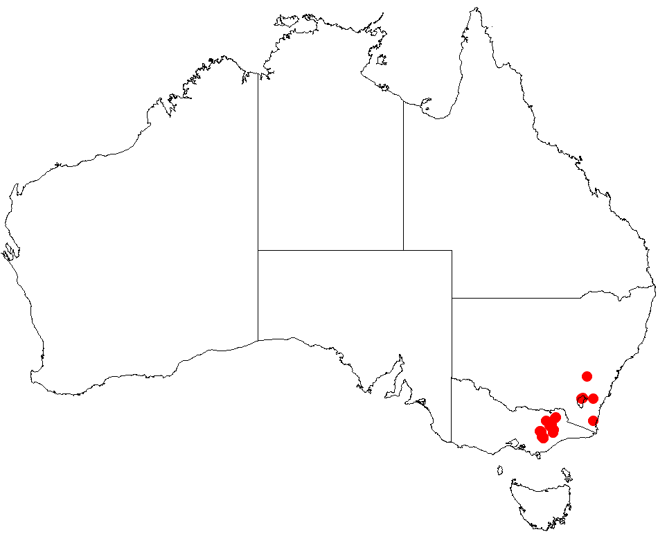 Bossiaea bracteosa Occurrence data downloaded from 11 September 2018 AVH